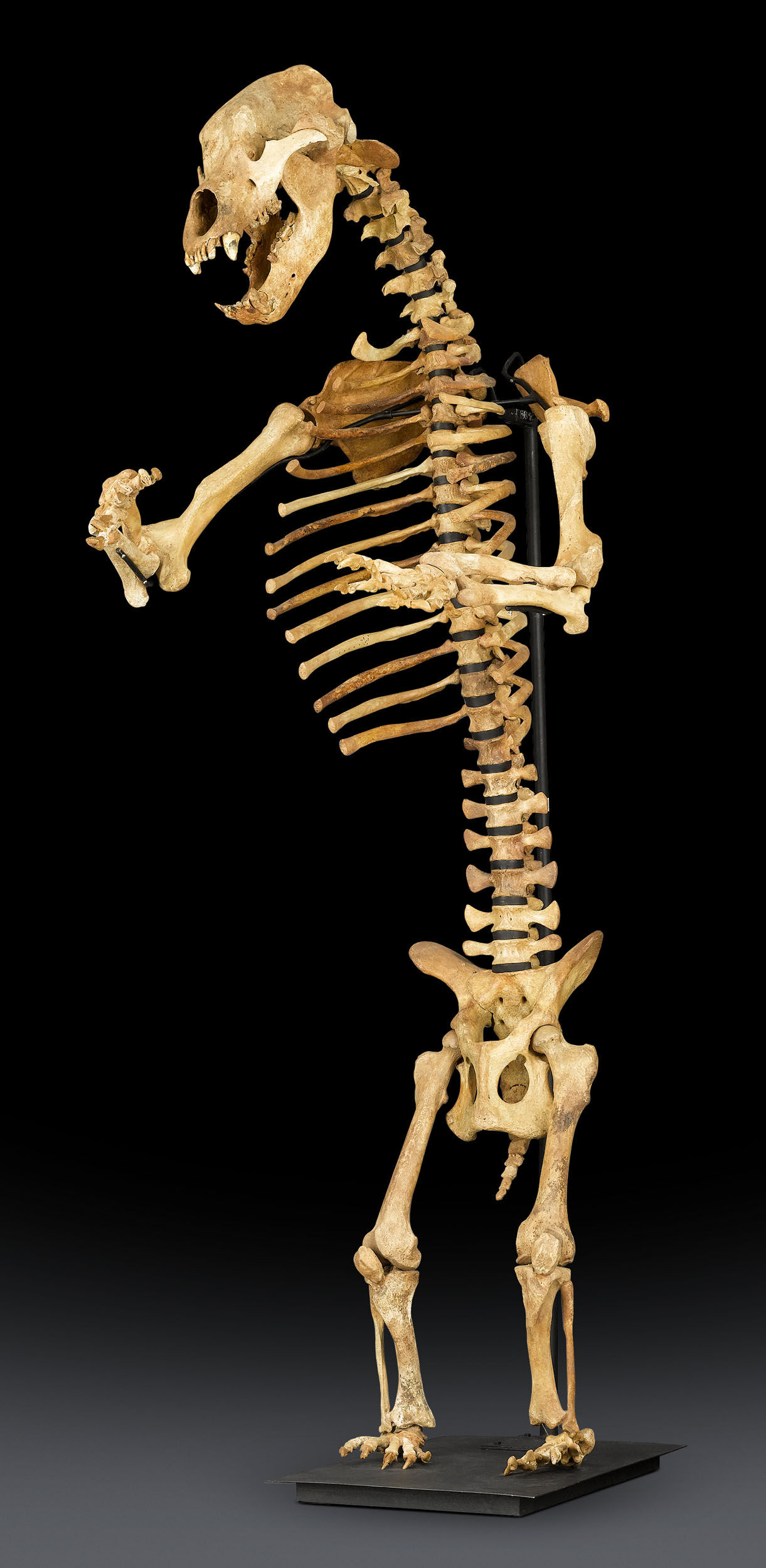 Ice Age Cave Bear (Ursus spelaeus) from 150,000 BC